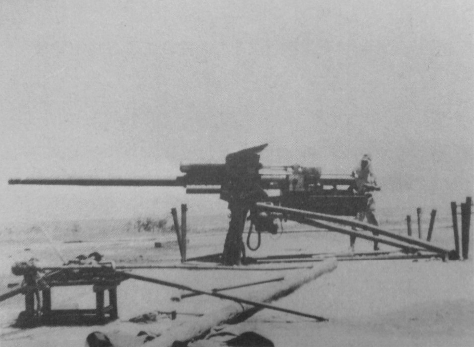 Imperial Japanese Army Type 5 75 mm Tank Gun Mark I (semi-auto loader).